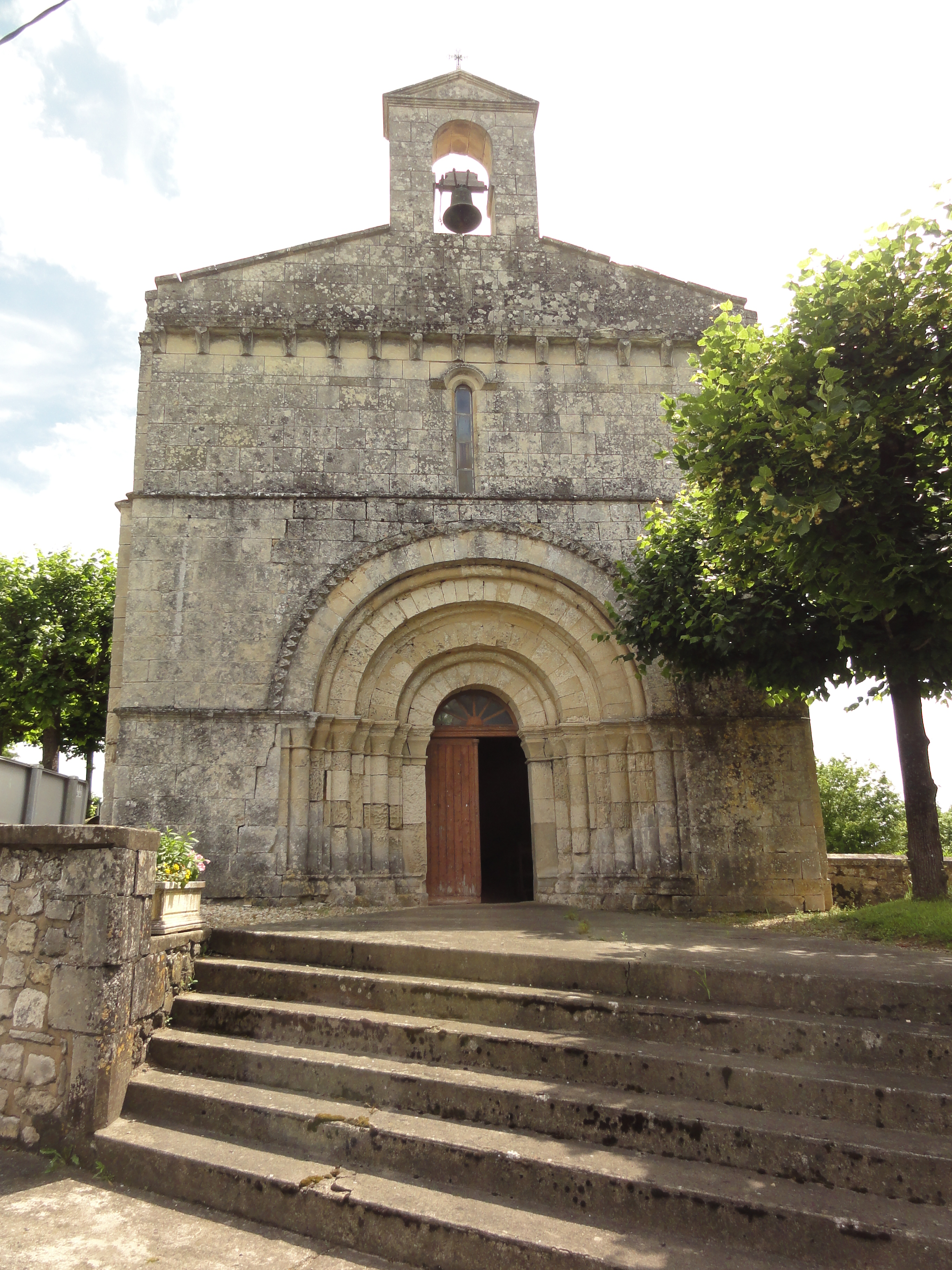 Belluire (Charente-Maritime) Église Saint-Jacques, extérieur